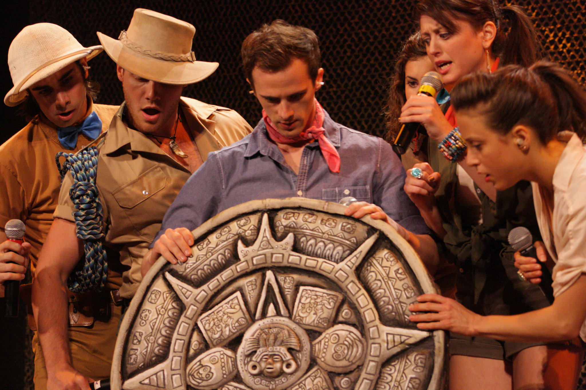 Photograph depicting a scene from the Apocalyptour concert by StarKid Productions - at Michigan Theater, Ann Arbor, MI. The StarKids uncover a mysterious stone tablet among ancient Mayan ruins.Depicted people: Joey Richter, Joseph Walker, Brian Holden, Meredith Stepien, Jaime Lyn Beatty and Lauren Lopez